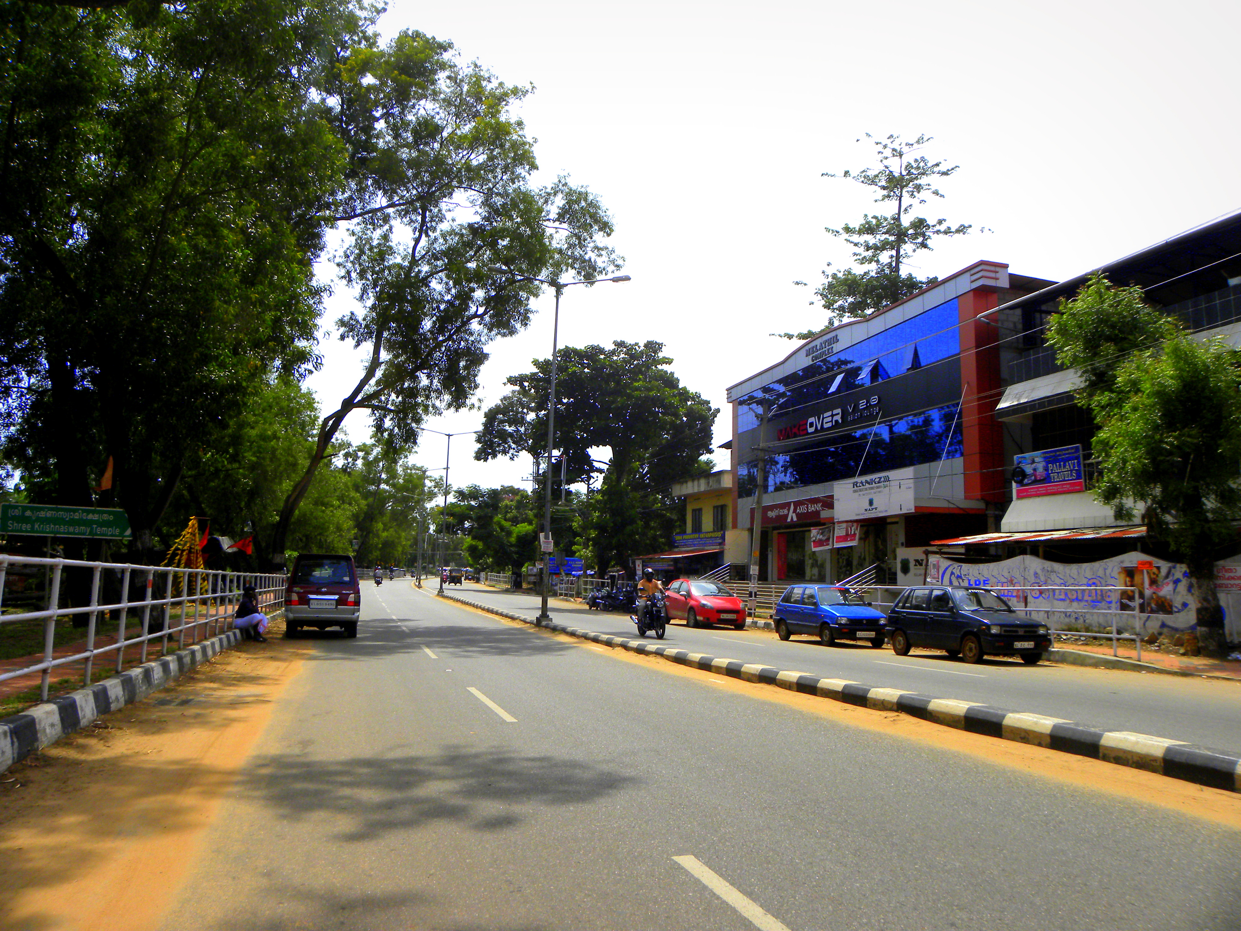 Asramam Link Road - One of the important city roads in Kollam